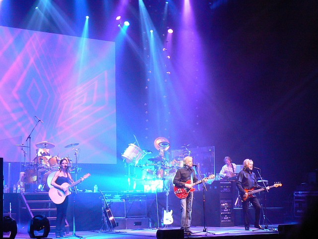 The Moody Blues play the New Theatre, Oxford The famous rock band are midway through their Autumn Tour. They have two more dates in the UK, Brighton and Bournemouth before crossing to Europe to play at venues in Amsterdam, Frankfurt and elsewhere. In this shot, left to right are Graeme Edge on drums (hidden by the cymbal), Norda Mullen, Graham Marshall, drums, Justin Hayward, Paul Bliss, keyboard, and John Lodge.